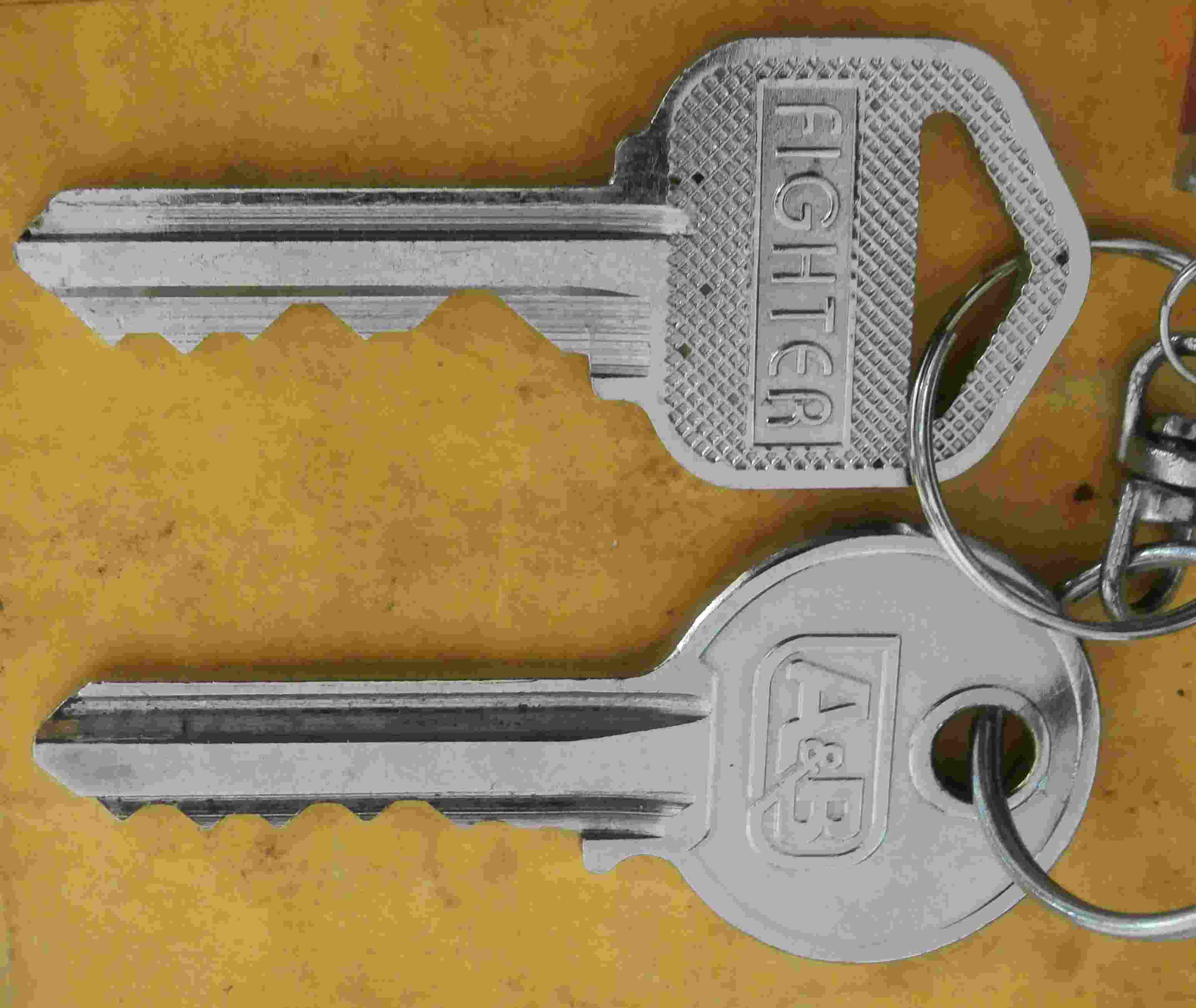 Two keys: while the "Fighter" has deep cuts where it could break easily, the "A&B" will resist better against breaking